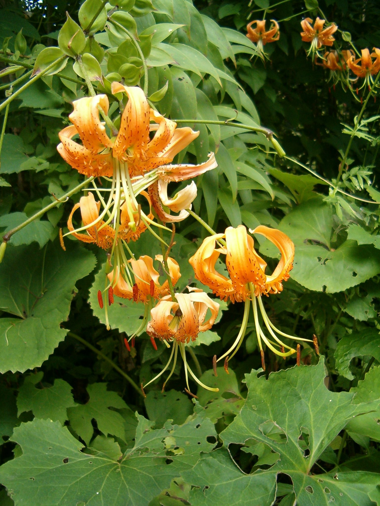 Location: Botanical Gardens Berlin Habitus, Inflorescence and Flowers